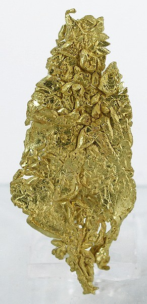 Gold Locality: Porgera Mine, Mt Kare Valley, Mt Hagen, Enga Province, Papua New Guinea (Locality at ) Size: 3.1 x 1.3 x 0.4 cm. This is an intricate, jewelry-like, complex gold crystal cluster from the famous but remote mines in the jungle of New Guinea. Specimens seem to emerge every few years in spurts. This is an old piece, circa 1980s, from the Jamie Bird collection.